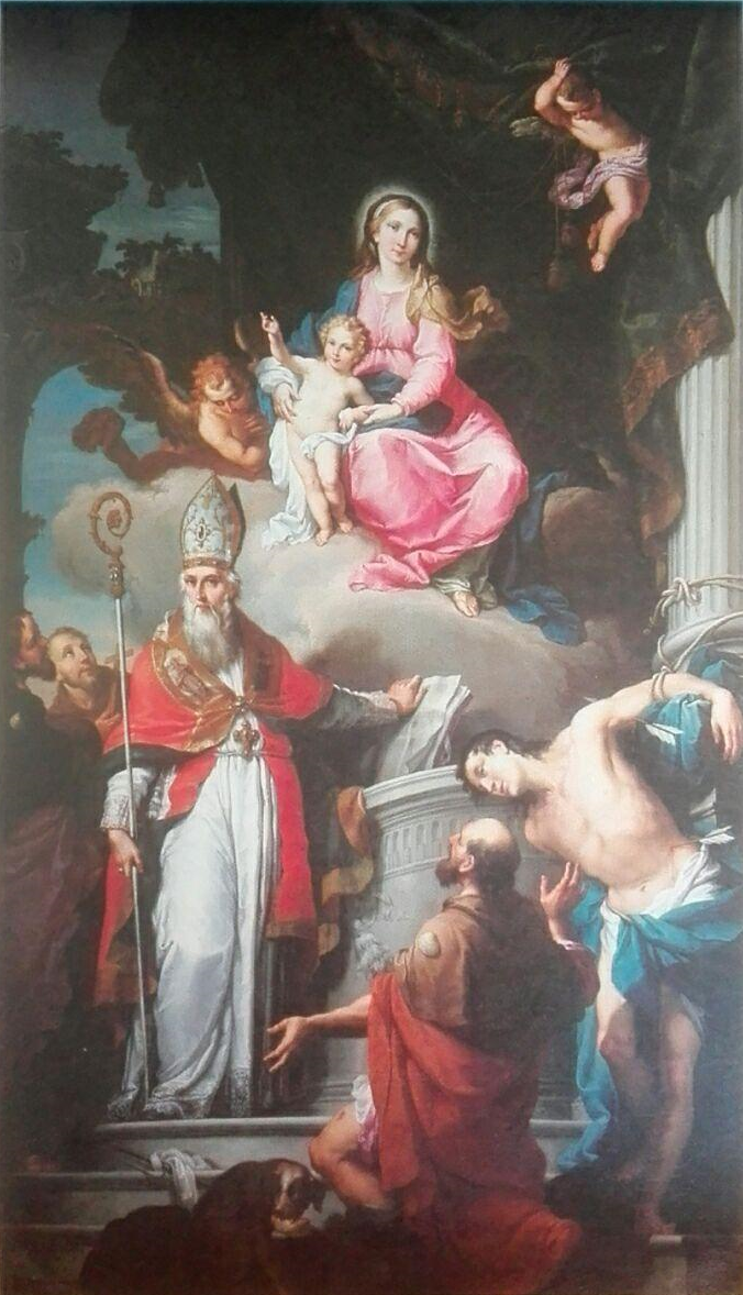 Painted by Agostino Ugolini